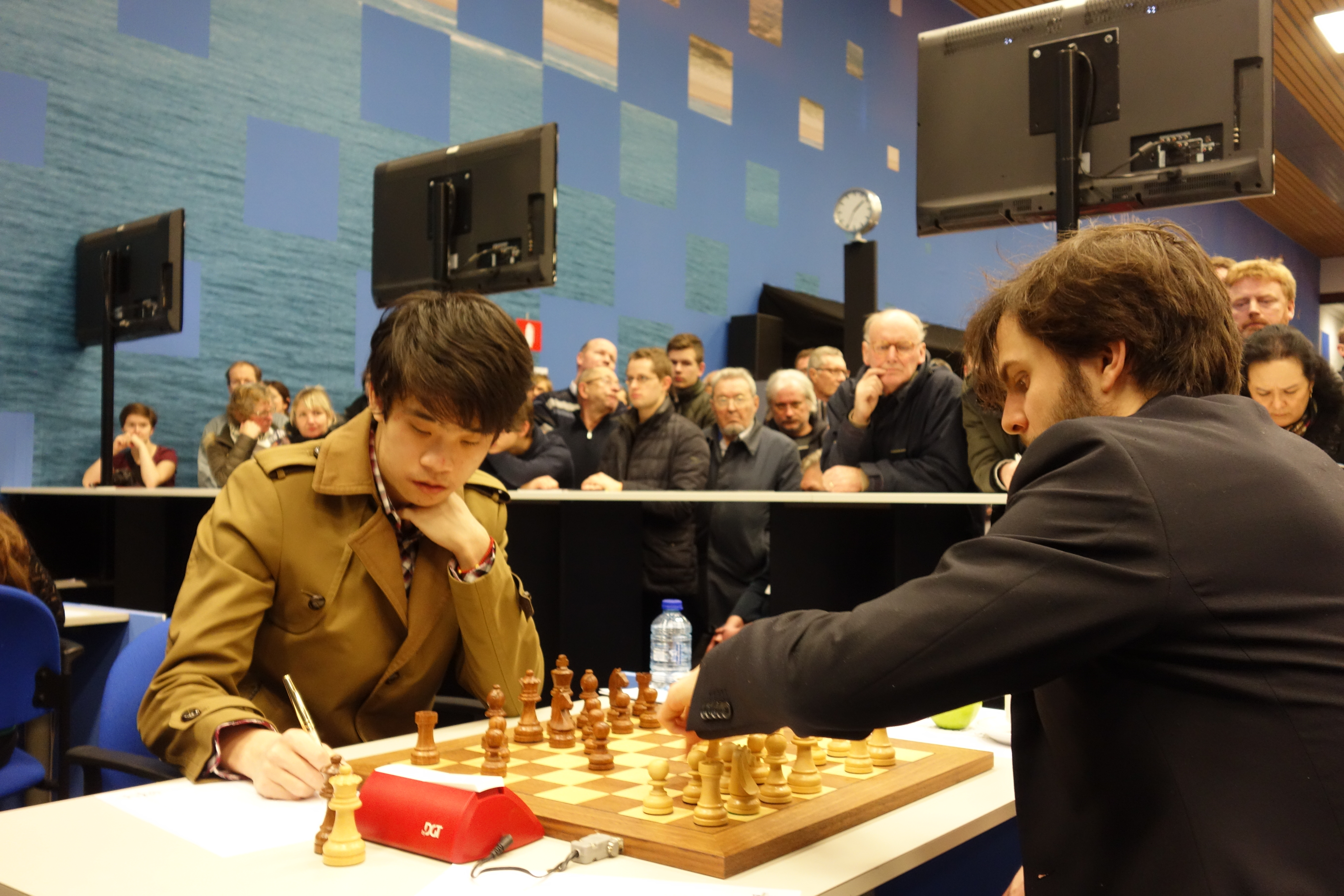 Lu Shanglei playing Nils Grandelius - Tata Steel Chess Tournament 2017, Wijk aan Zee (the Netherlands), 28 January 2017